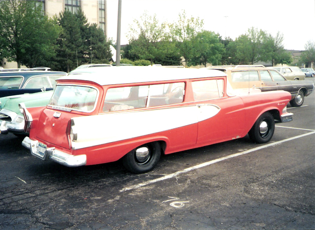 1958 Edsel Roundup 2-door station wagon photographed in Dearborn, Michigan.